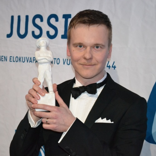 Pekko Pesonen in 2010 Jussi Award.